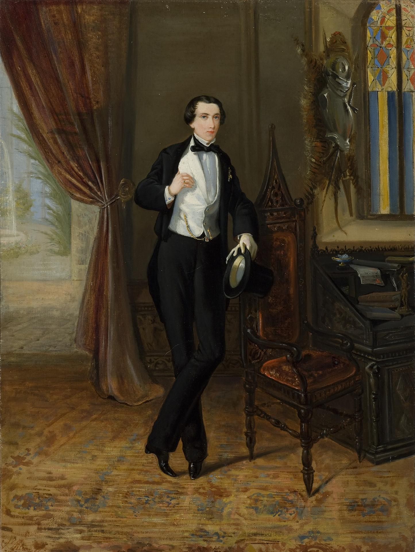 Portrait of Young Duke N.B. Yusupov, 64,5x47,5 cm, 1851